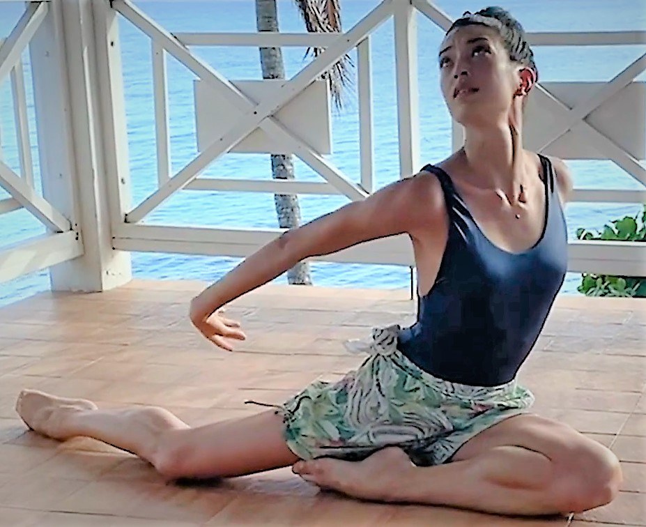 Swans For Relief - Hannah O'Neill, Paris Opera Ballet, France 32 premier ballerinas from 22 dance companies in 14 countries perform Le Cygne (The Swan) variation sequentially in support of Swans for Relief. Organized by Misty Copeland and Joseph Phillips, 100% of the funds raised will be distributed to each dancer’s company’s COVID-19 relief fund, or other arts/dance-based relief fund in the event that a company is not set up to receive donations. To donate please visit, Ballet companies are largely dependent on revenue from performances to pay their dancers and fund their operations, but due to the coronavirus pandemic, all performances have been halted. Consequently, many dancers are unable to depend on paychecks and are facing the hardship of paying rent and/or buying food and other necessities. Le Cygne (The Swan) with music by Camille Saint-Saëns, performed by cellist Wade Davis (USA), with choreography by Michel Fokine by kind permission of the Fokine Estate-Archive.